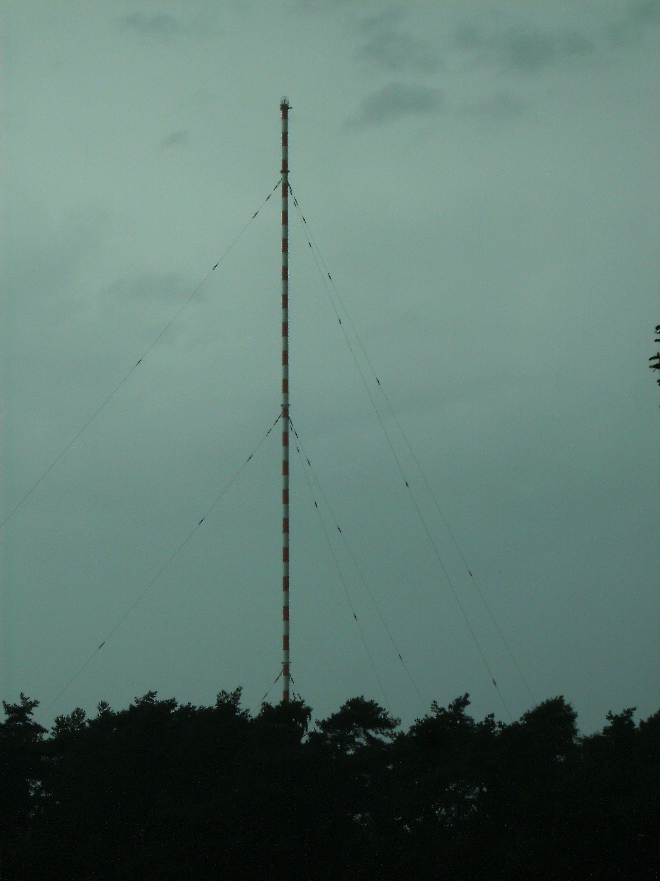 210 metres tall mast of Burg transmitter used for longwave and mediumwave broadcasting. Until 2006 there was a second mast of same type close to it